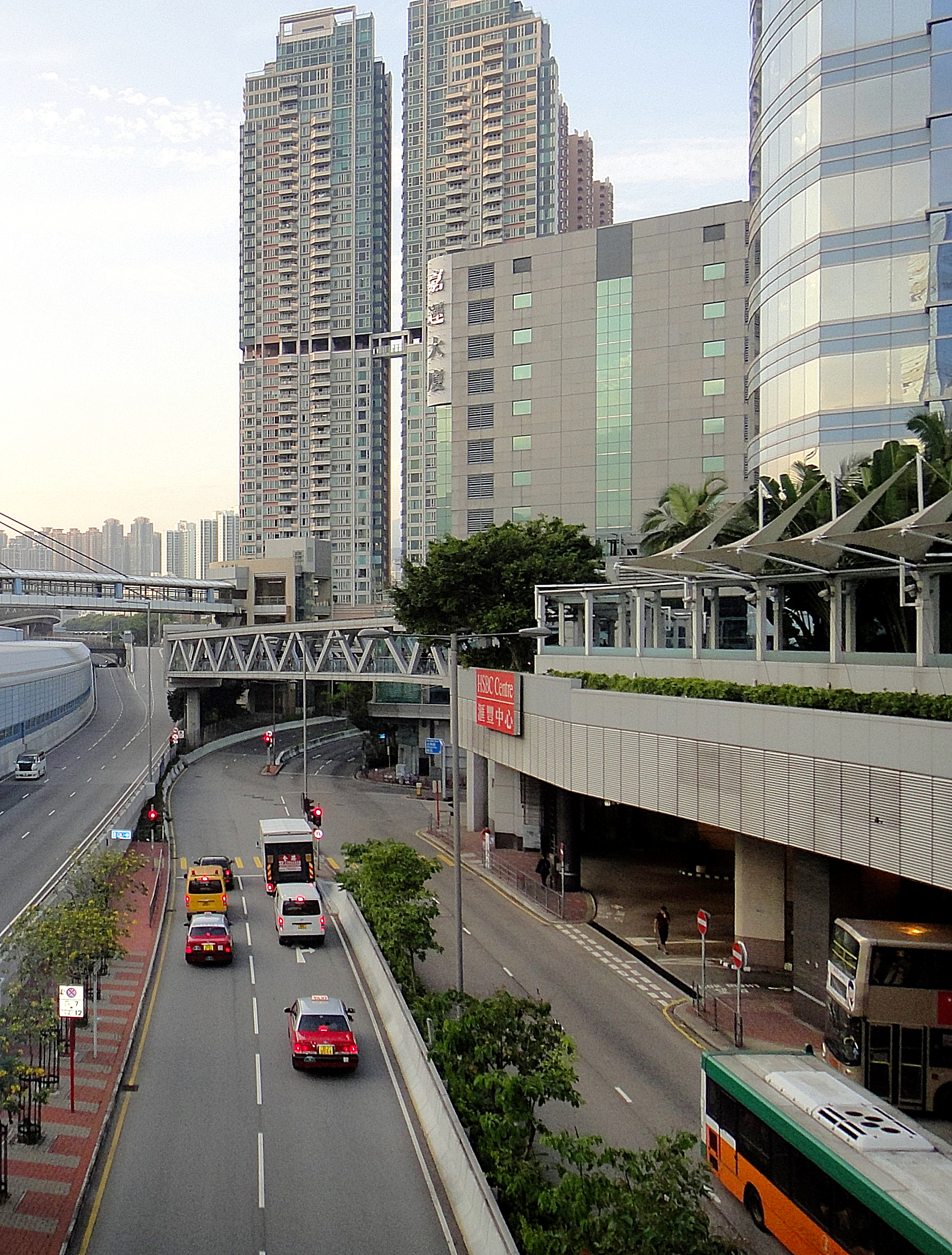 A behind the HSBC of Tai Kok Tsui, Kowloon